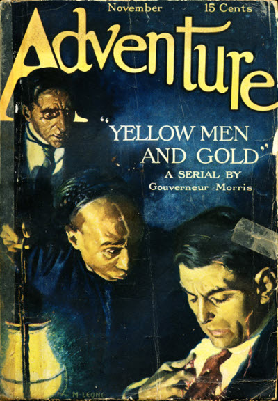 Cover for the Adventure magazine, volume 01, issue 01, November 1910.